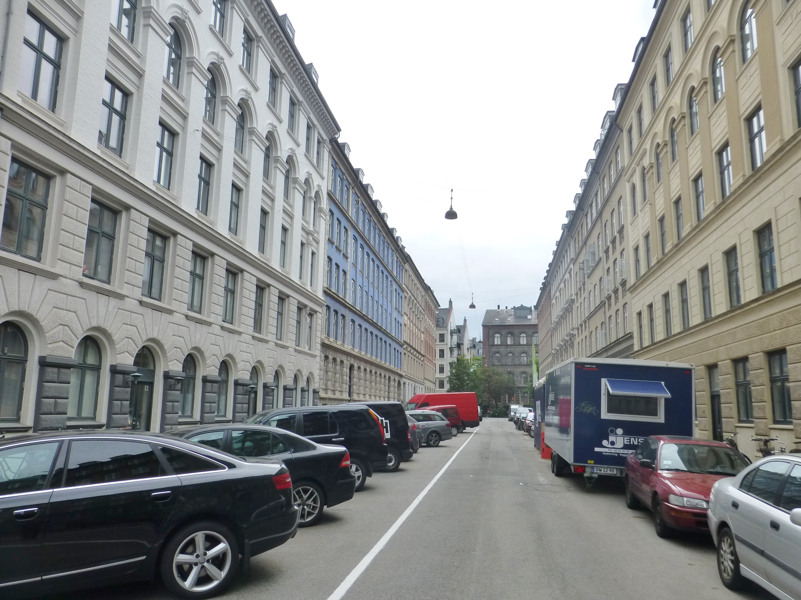 The street Kjeld Langes Gade in Indre By in Copenhagen.